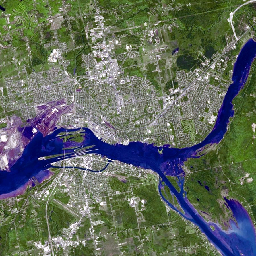 Satellite image of the St. Marys River — in Michigan (U.S.) and Ontario (Canada). Showing Sault Ste. Marie, Michigan with the active Soo Locks; and Sault Ste. Marie, Ontario with the historic Sault Ste. Marie Canal. NASA image taken on 10 June 2007